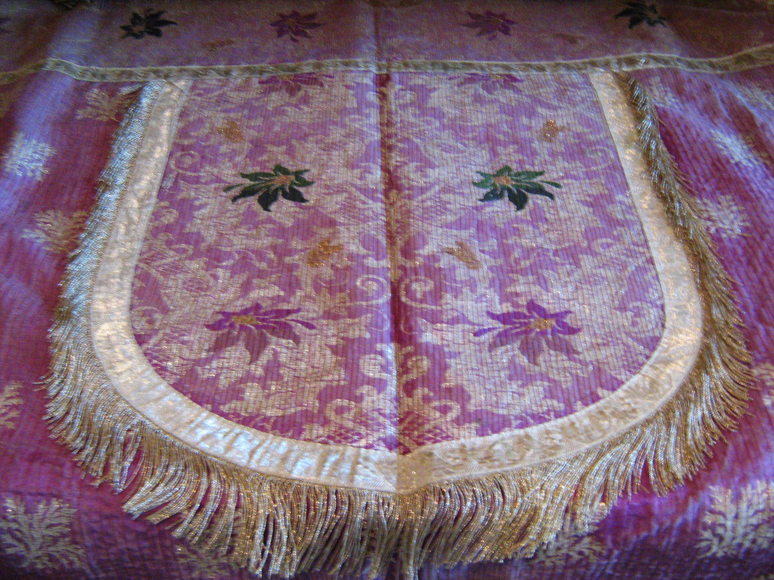 Rose-colored cope